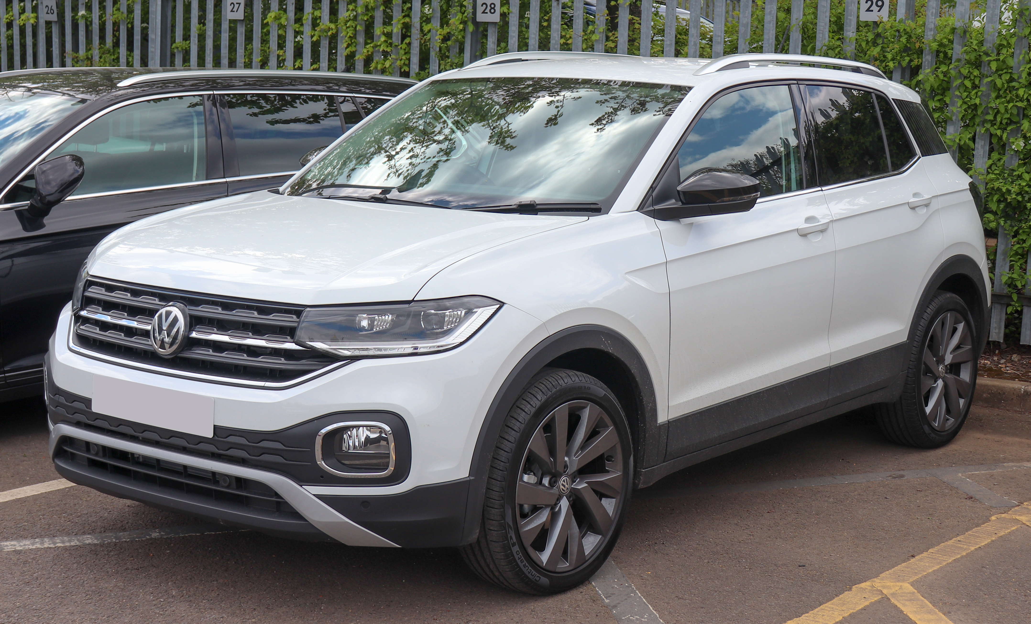 2019 Volkswagen T-Cross First Edition TSi 1.0 Taken in Leamington Spa